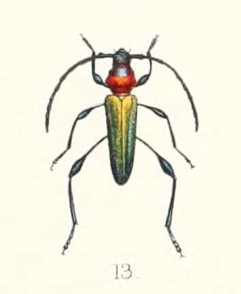 « Eximia tricolor » = Eximia colorata